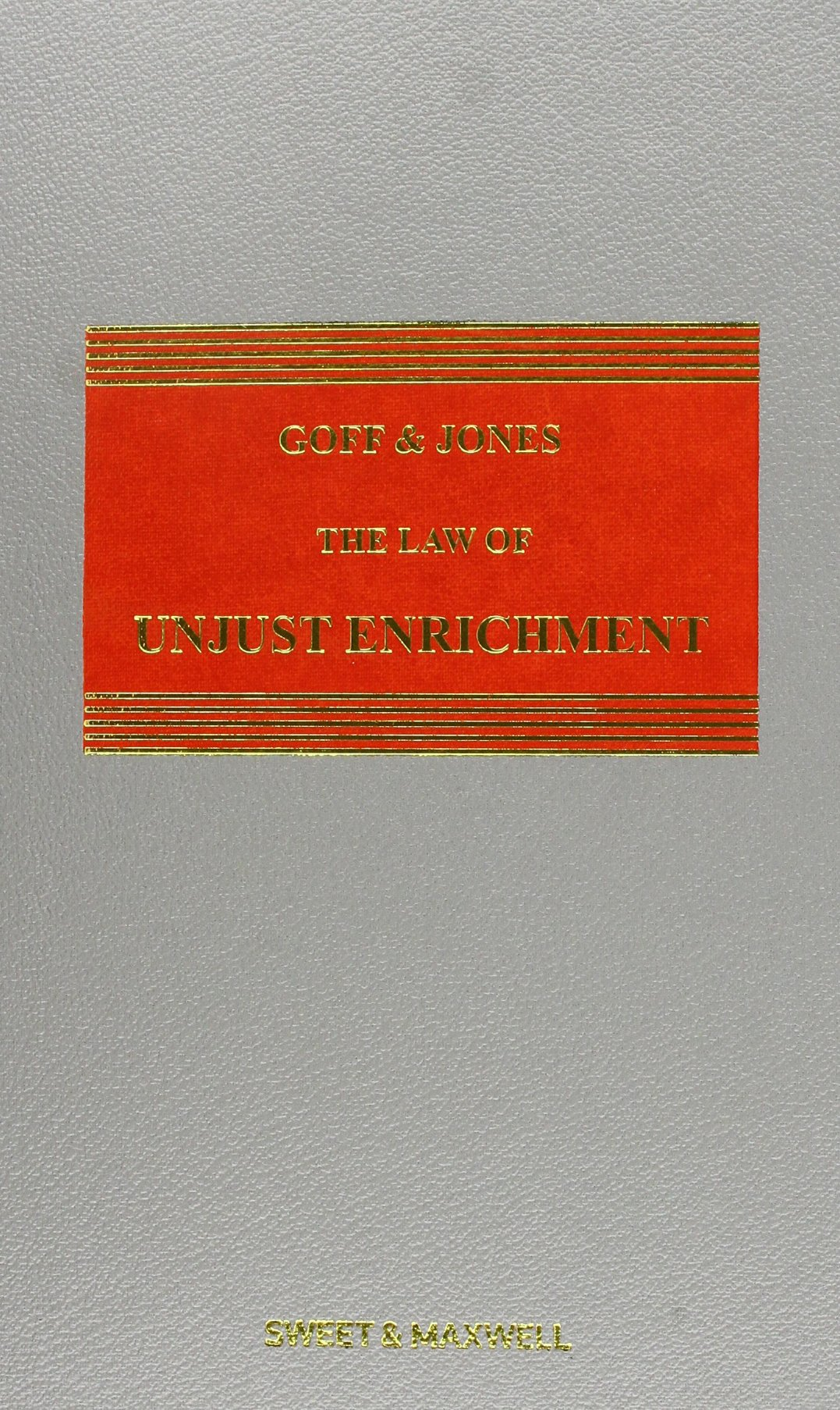 A cover of the restitution textbook Goff and Jones on the Law of Unjust Enrichment.